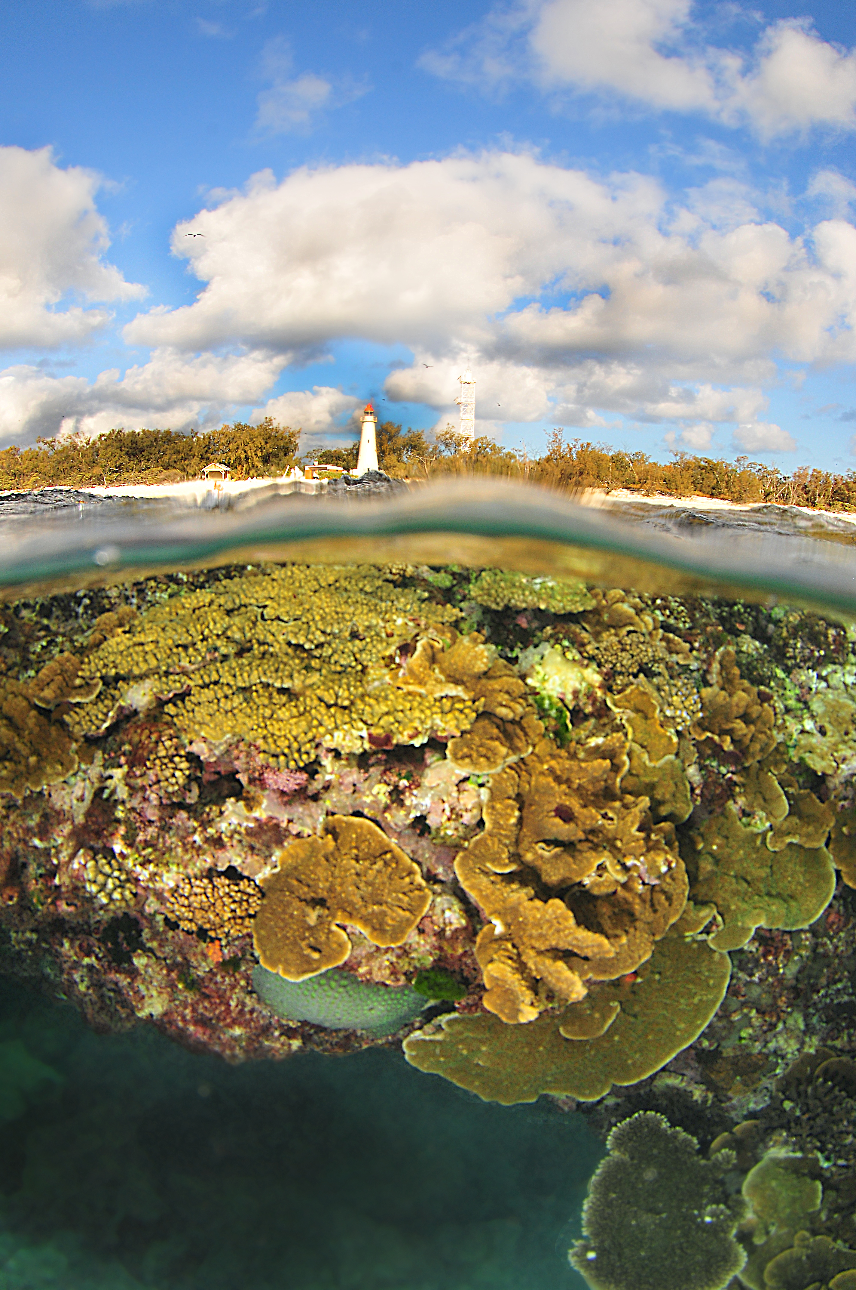 Under / Over image of Lady Elliot Island lighthouse and fringing coral reef